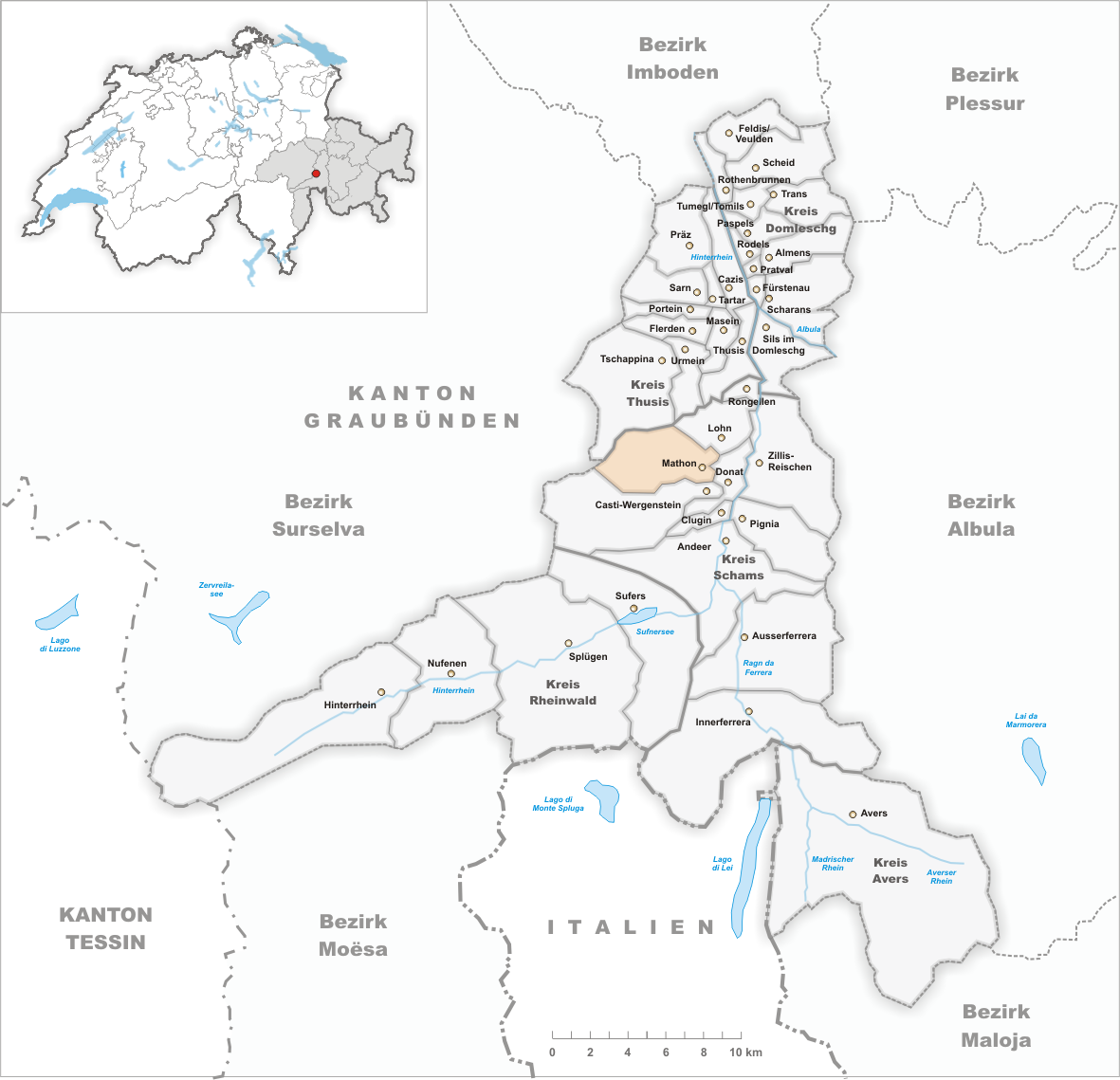 Municipality Mathon